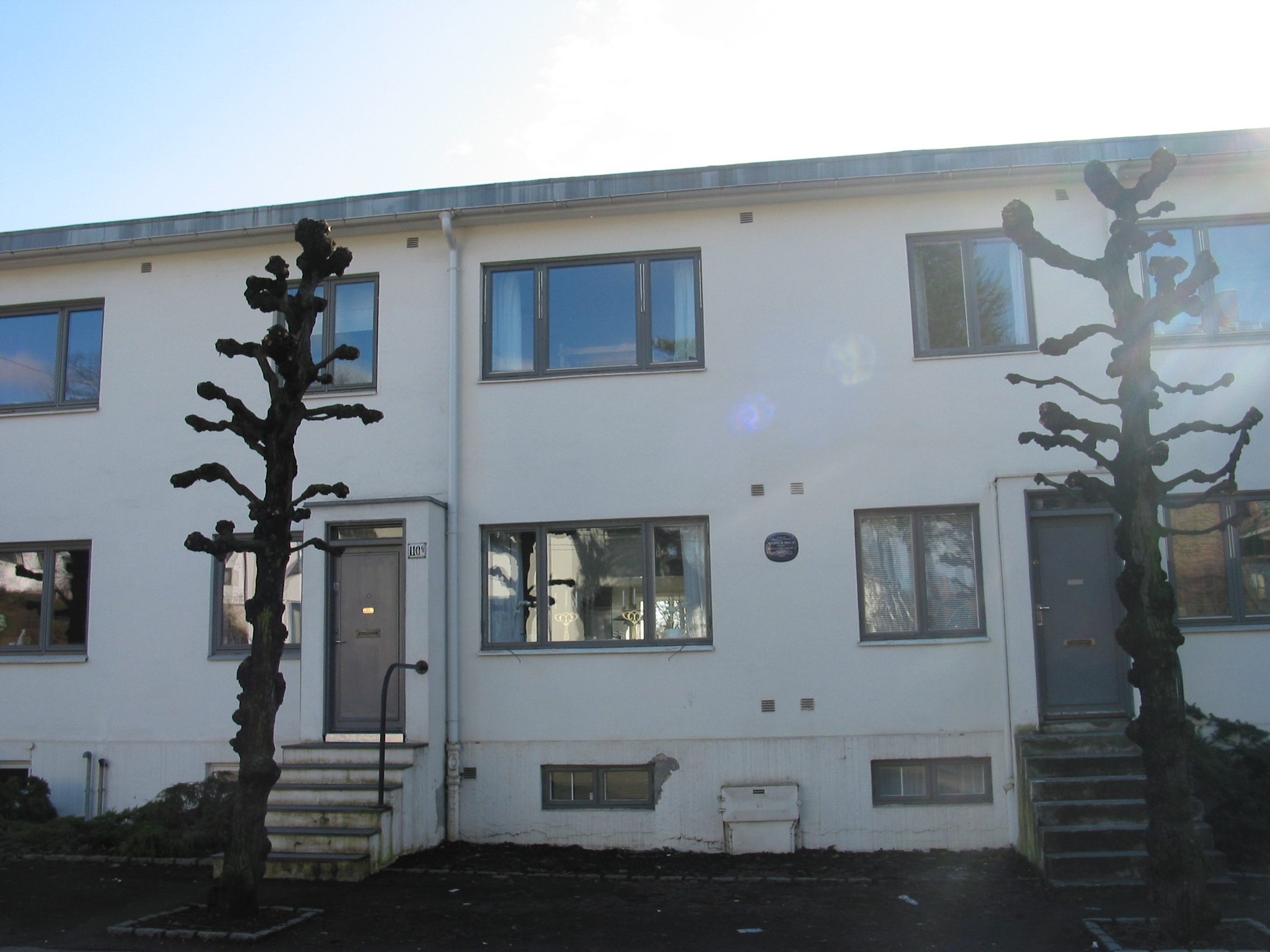 A house in Drammensveien near Olaf Kyrres plass at Frogner, Norway. Wilhelm Reich lived here. Visible between the windows is a blue memorial placque, which reads (translated by me): The physician and psychoanalyst WILHELM REICH (1897-1957) resided and worked here 1935-39 Developed character analysis and the body-oriented therapy